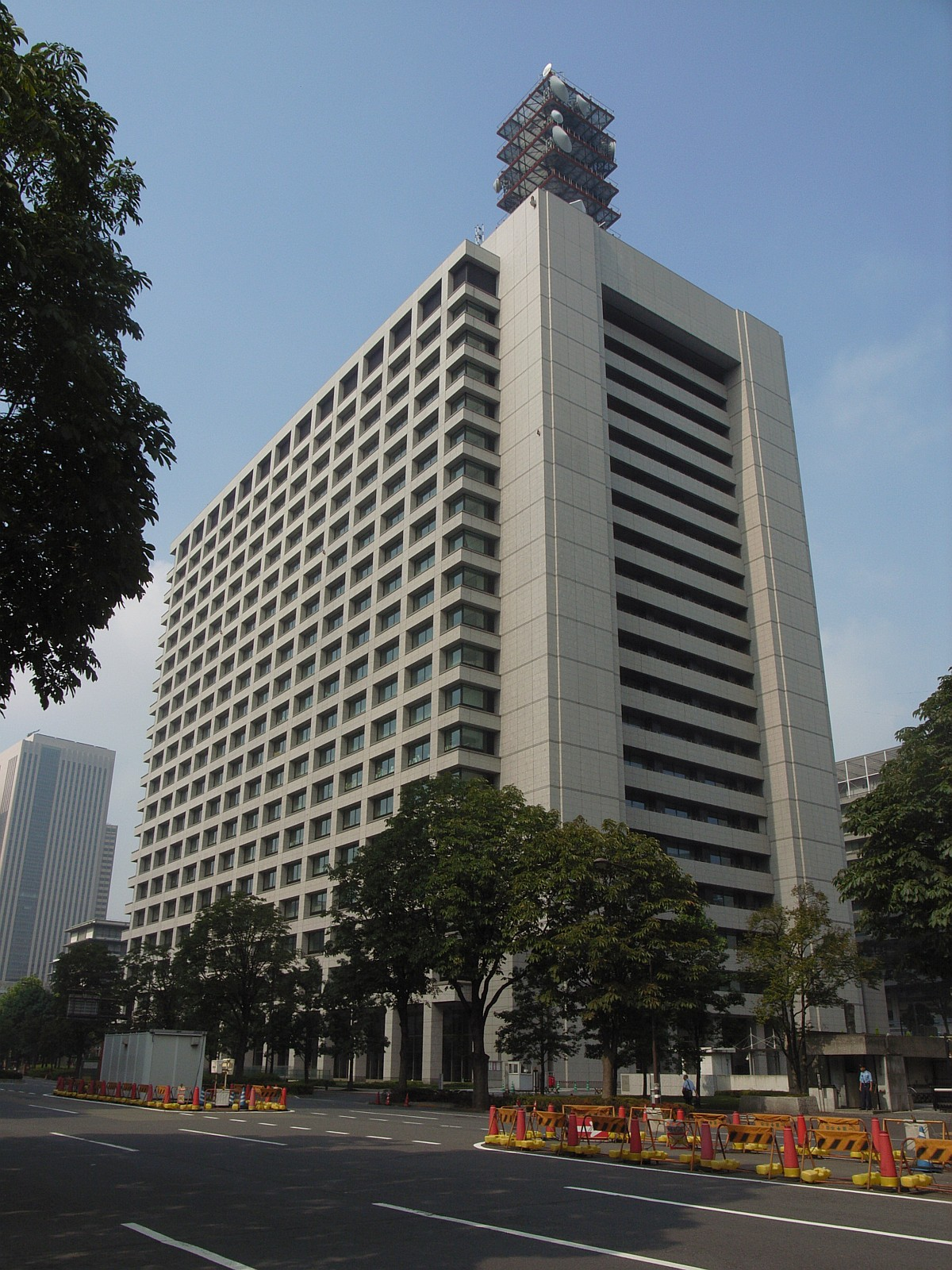 2nd Building of the Central Common Government Office at 2-1-2 Kasumigaseki in Minato, Tokyo, Japan It houses the Ministry of Internal Affairs and Communications (formerly Ministry of Public Management, Home Affairs, Posts and Telecommunications), the Japan Transport Safety Board (JTSB), and the National Public Safety Commission Prior to the 2008 establishment of JTSB, it housed the Japan Marine Accident Inquiry Agency (JMAIA) and the Aircraft and Railway Accidents Investigation Commission (ARAIC)